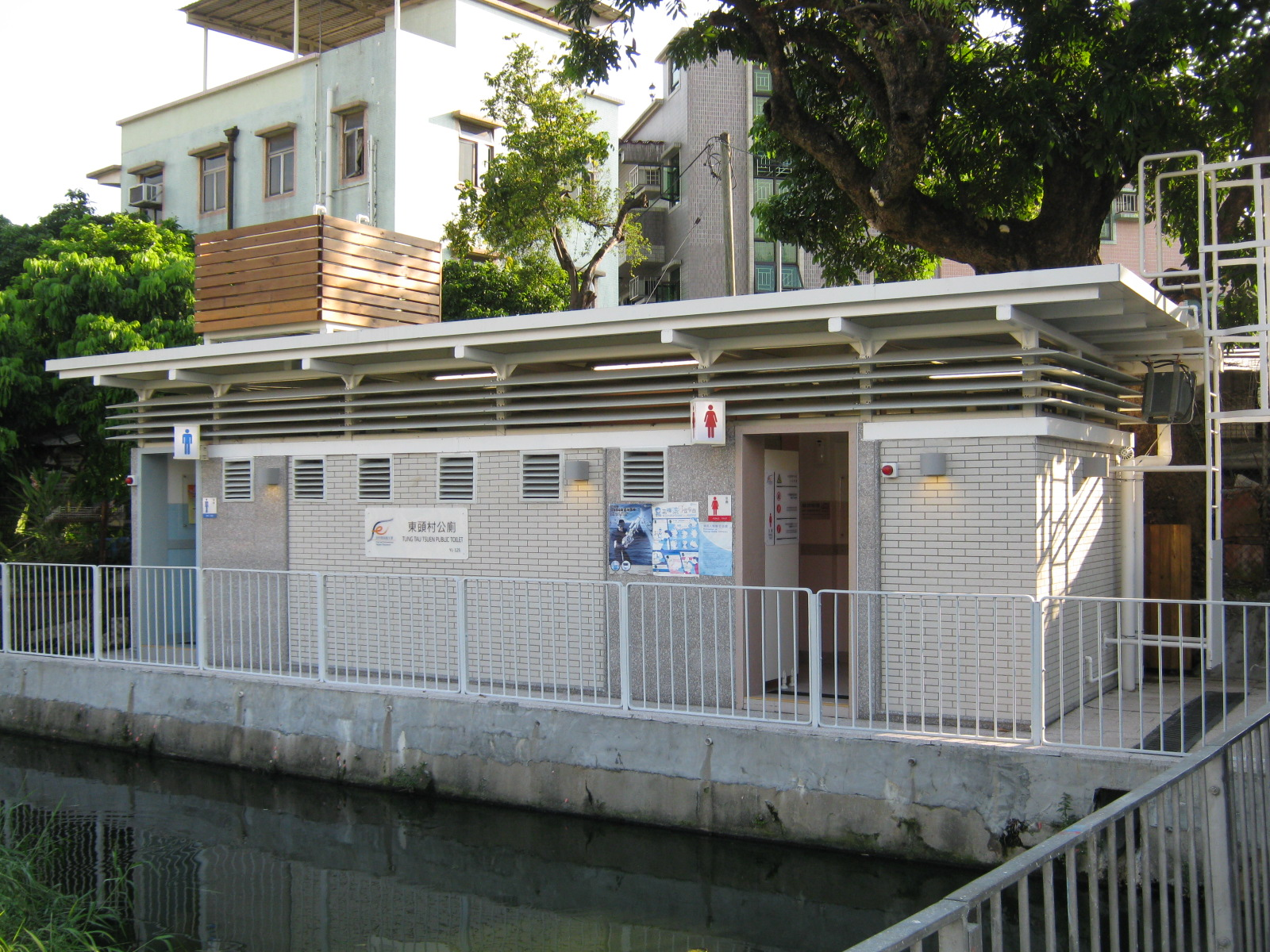 Tung Tau Tsuen Public Toilet (Ha Tsuen). Converted from an aqua privy.